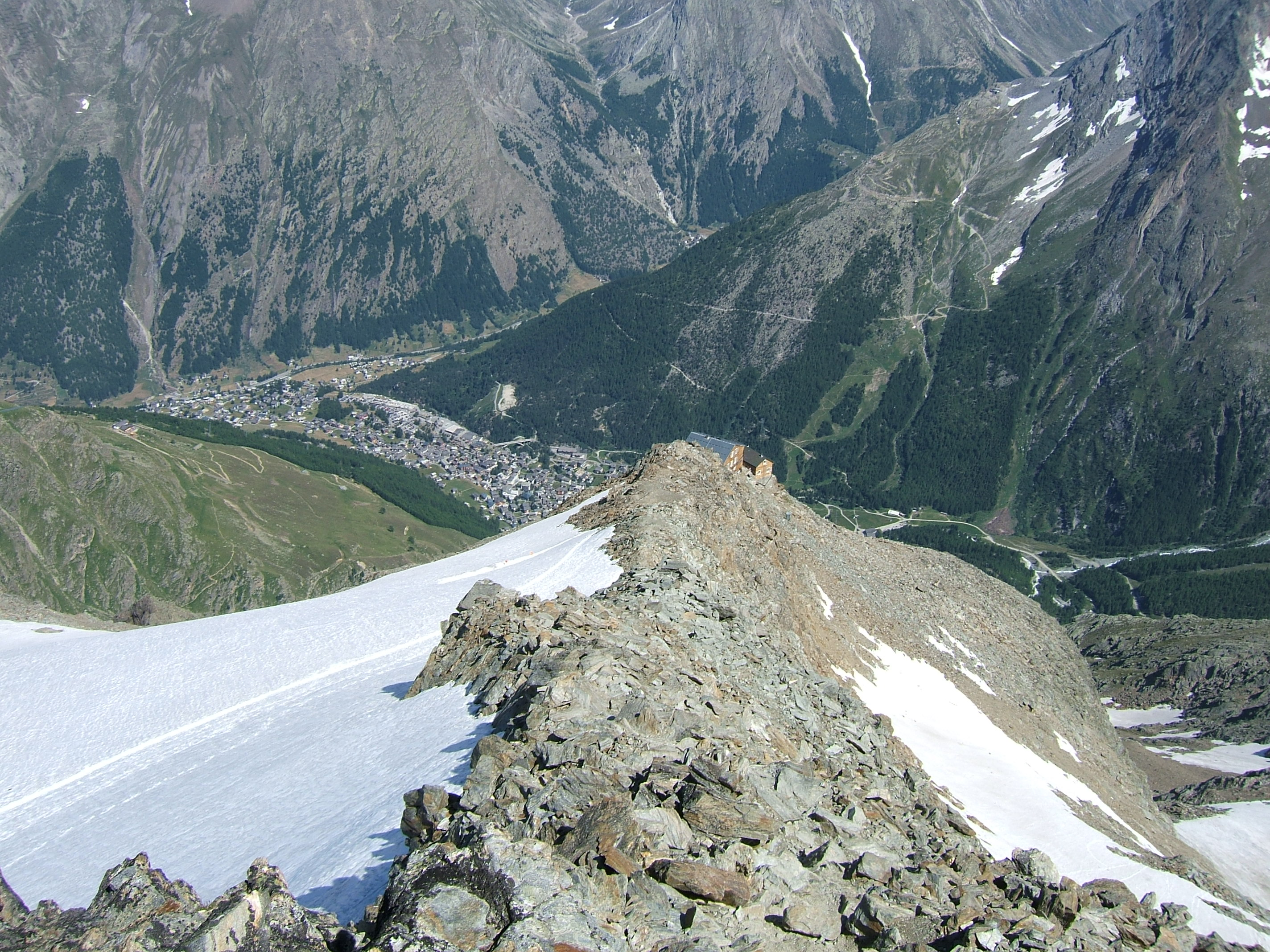 Mischabelhütten from West, below Saas Fee and Saas Grund